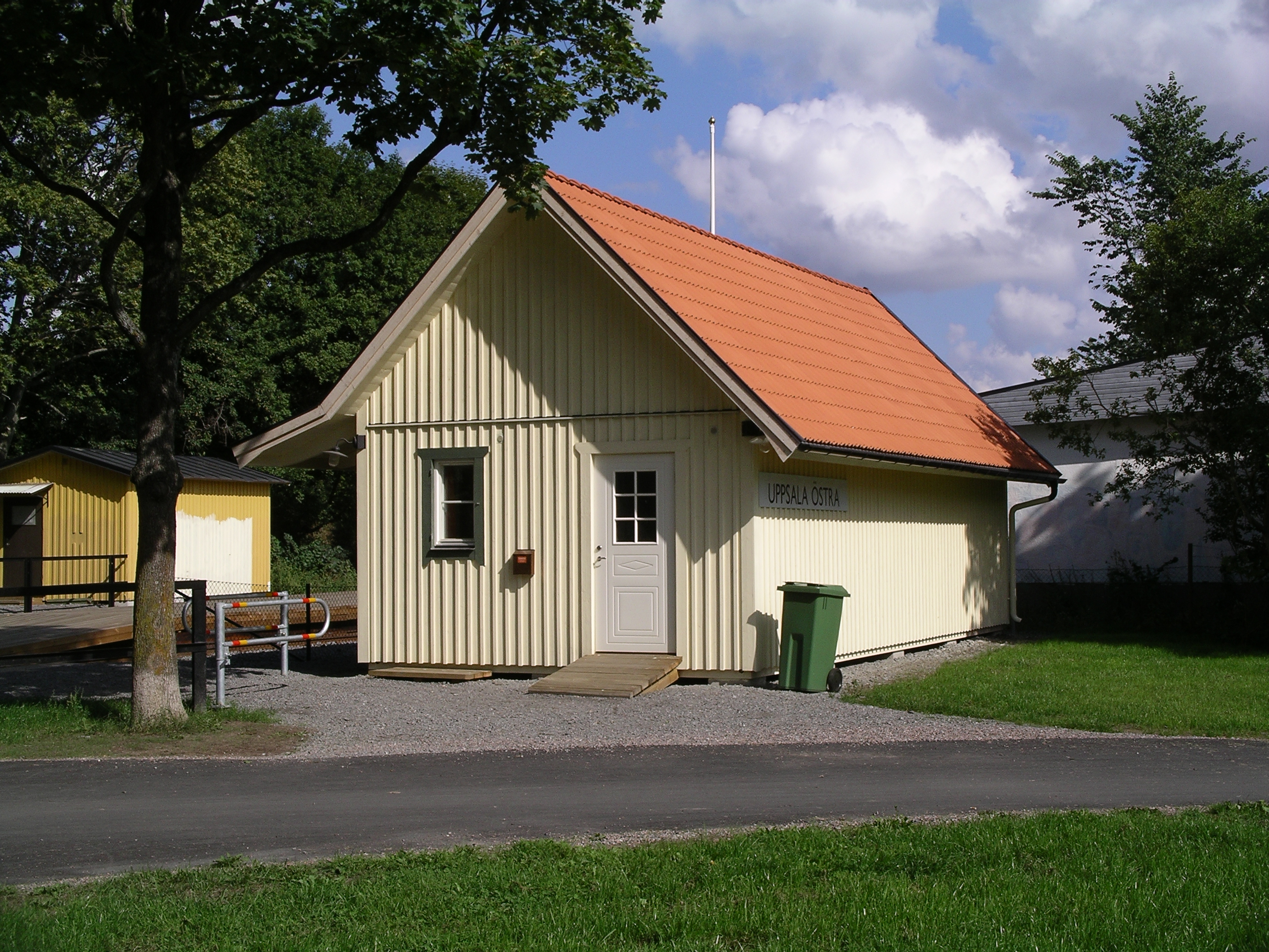 Railway station Uppsala Östra 2006 at Upsala Lenna Jernväg in Uppsala, Sweden